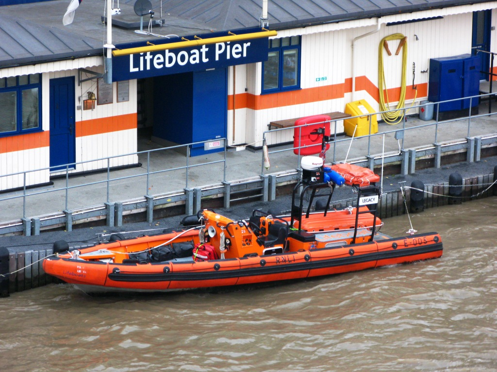 E Class lifeboat E005 Legacy moored at Tower Lifeboat Station on the River Thames in London.